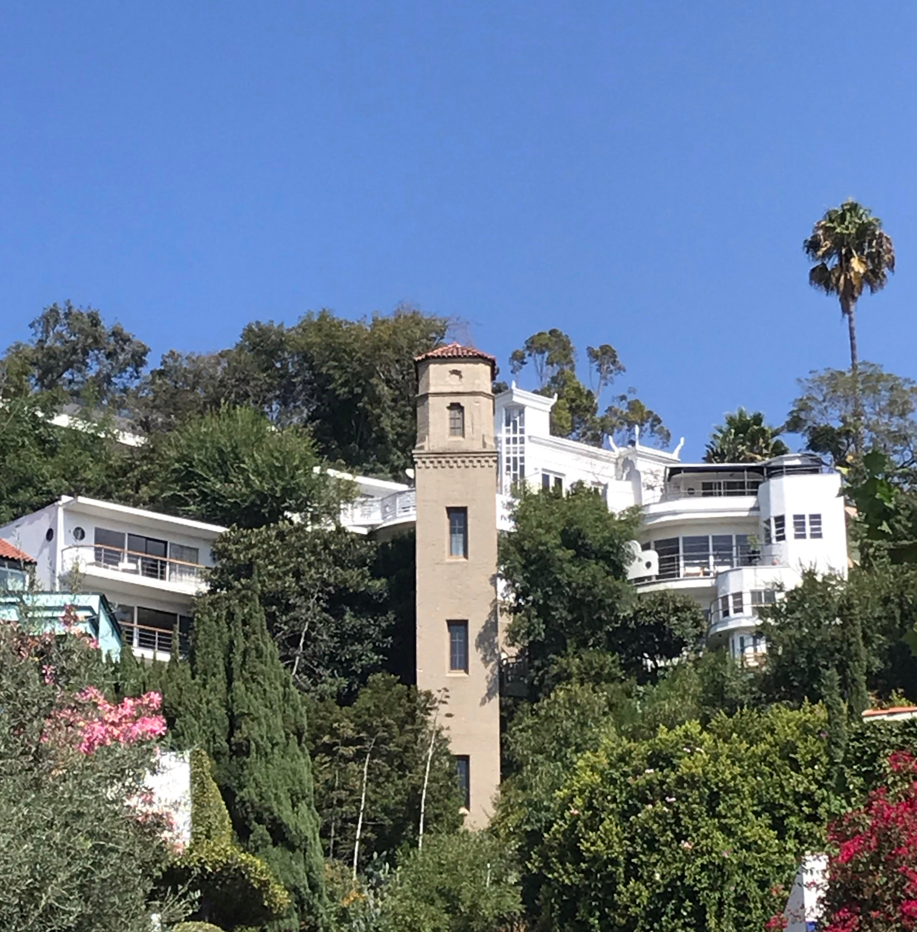 The High Tower (2178 High Tower Drive, Los Angeles, California) is a five-story, over 100-foot-high tower housing a private elevator. It was designed by architect Carl Kay and built circa 1920 in the style of a Bolognese campanile. The tower provides access to a Streamline Moderne fourplex (pictured in white) known as High Tower Court, built between 1935 and 1936.